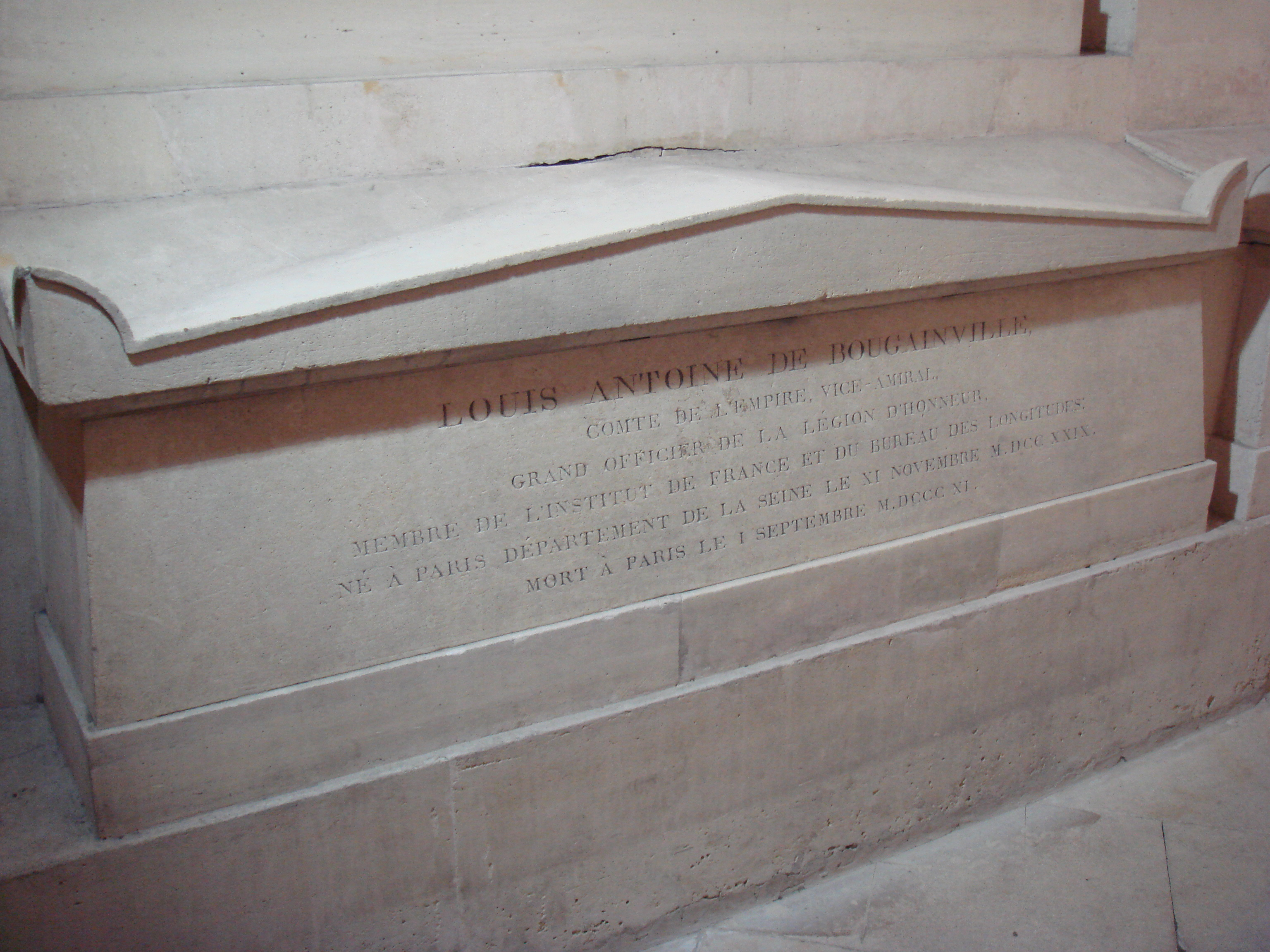 Tomb of Louis Antoine de Bougainville (1729-1811) at the Panthéon de Paris, France.